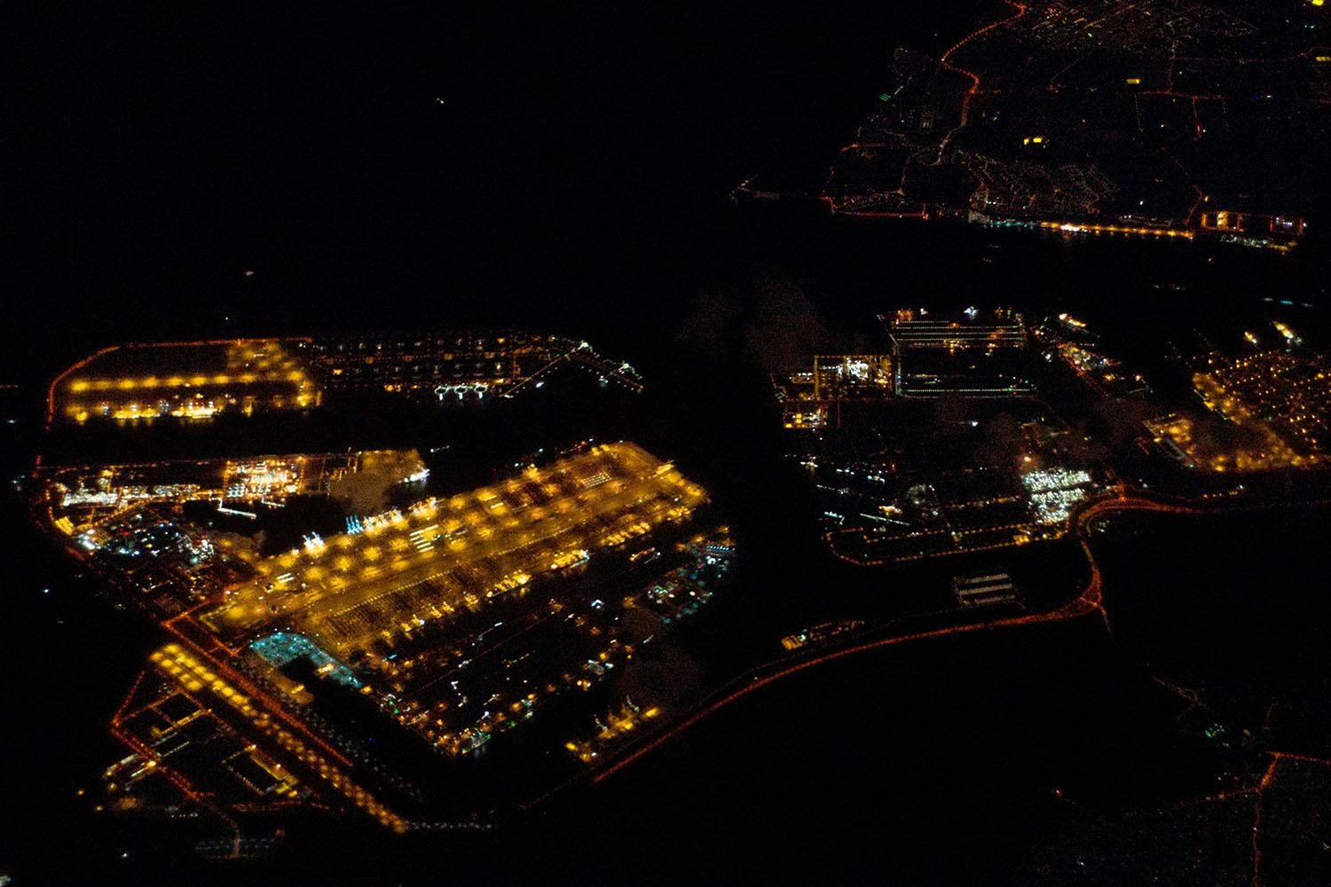 North-western part of Maasvlakte in Netherlands. Large area on the left is container storage and unloading (with several cranes visible at the shore, some of them with blue lights). In the top-right corner of the photograph, on the Northern bank of the Nieuwe Waterweg you find Hook of Holland.